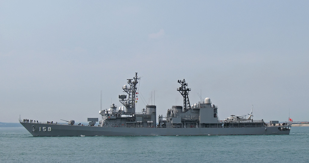 The Japanese Asagiri-class destroyer JDS Umigiri (DD-158) photographed at Portsmouth, UK, on the 28 of July 2008 by Brian Burnell. Image uploaded by me User:George.Hutchinson from a photograph taken by and supplied by Brian Burnell. Wikipedia editors are reminded that the copyright remains with the photographer, and that the terms of the Creative Commons licence; that allow editors to reuse this image apply to Wikipedia editors also, as they do to other re-users of this image. Breaches of the licence terms are not only unlawful, but are also antisocial, in that breaches discourage photographers from making their images freely available to everyone without payment. Wikipedia re-users are also reminded of the license terms that derivatives of this image should not imply that the adaptation is endorsed or approved by the author or copyright holder. Neither should derivatives be presented as the creation of the author or copyright holder, while clearly stating that the adaptation is a derivative of the original. Attribution online should be in this format Brian Burnell. On the printed page, a simpler form is acceptable - example: "Image: Brian Burnell". Non-Wikipedia users are requested to advise Brian Burnell of its use other than on Wikipedia.